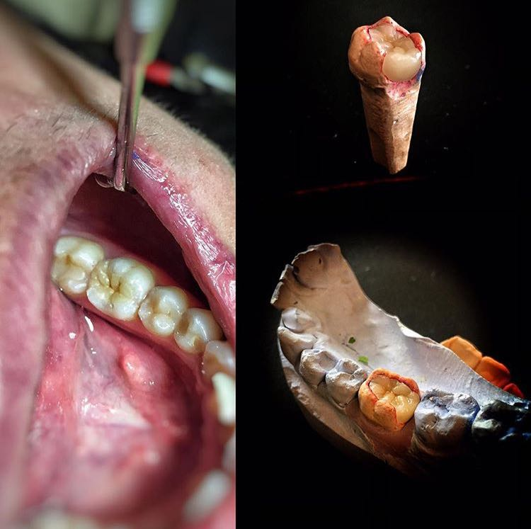 Inlay made of IPS e.max Press